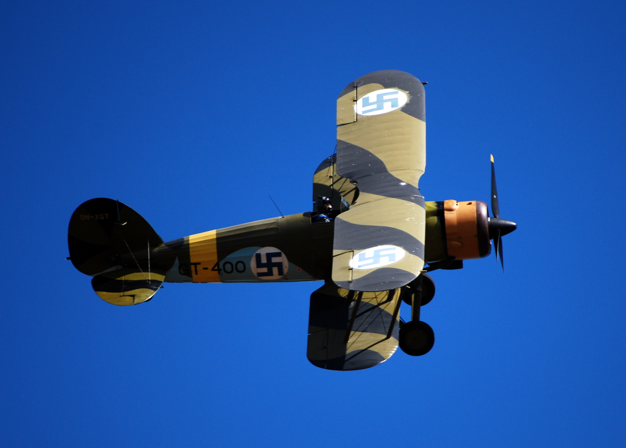 Gloster Gauntlet aircraft (OH-XGT) at Selänpää Airfield in Kouvola, Finland